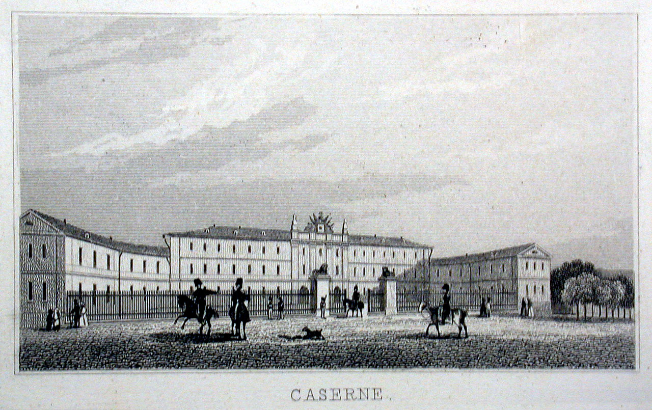 Steel engraving of the Ducal Nassau infantry barracks at Schwalbacher Strasse in Wiesbaden. Constructed 1817-1819, demolished 1911. Architect: Carl Florian Goetz